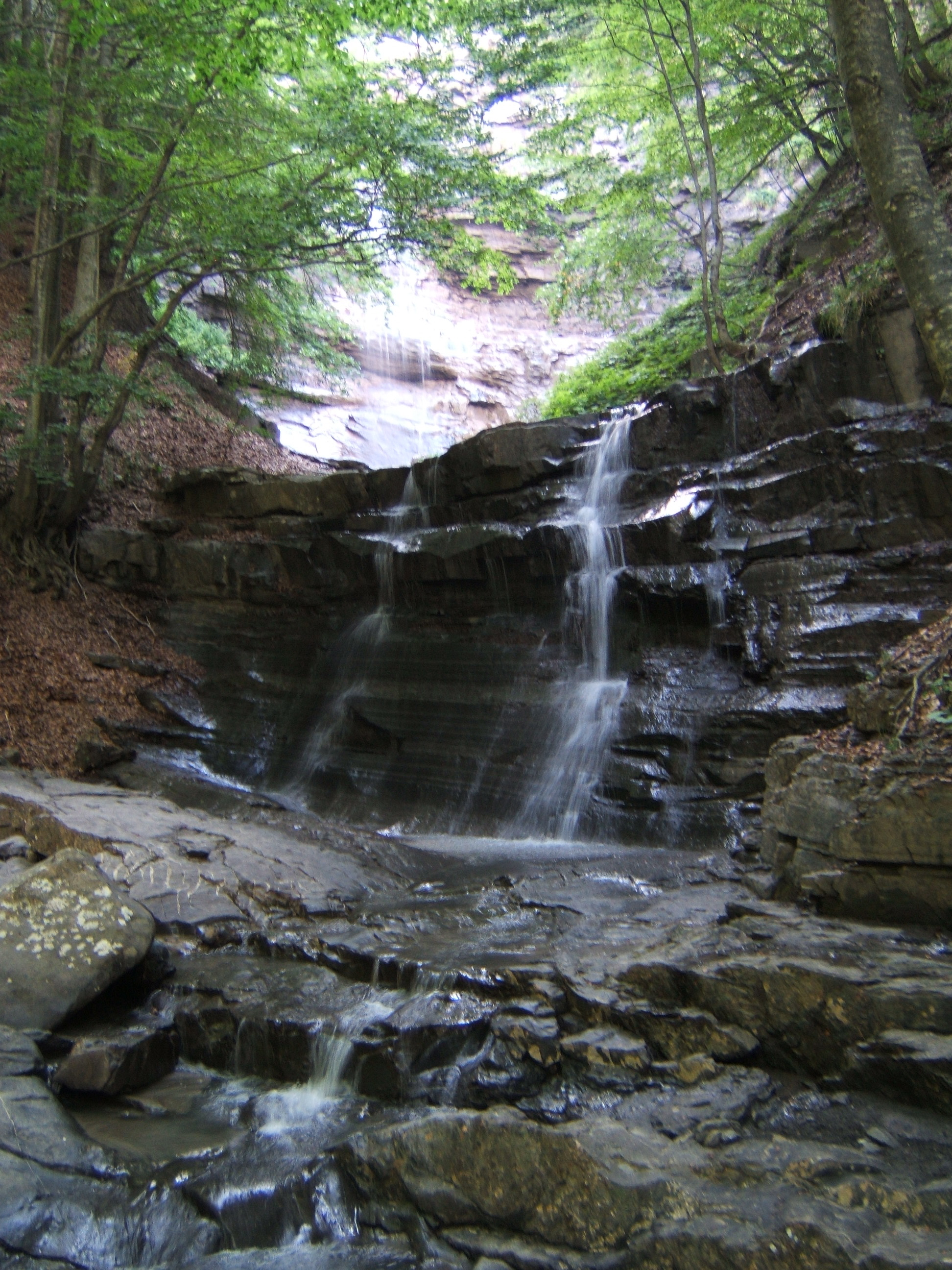 Lavacchiello falls